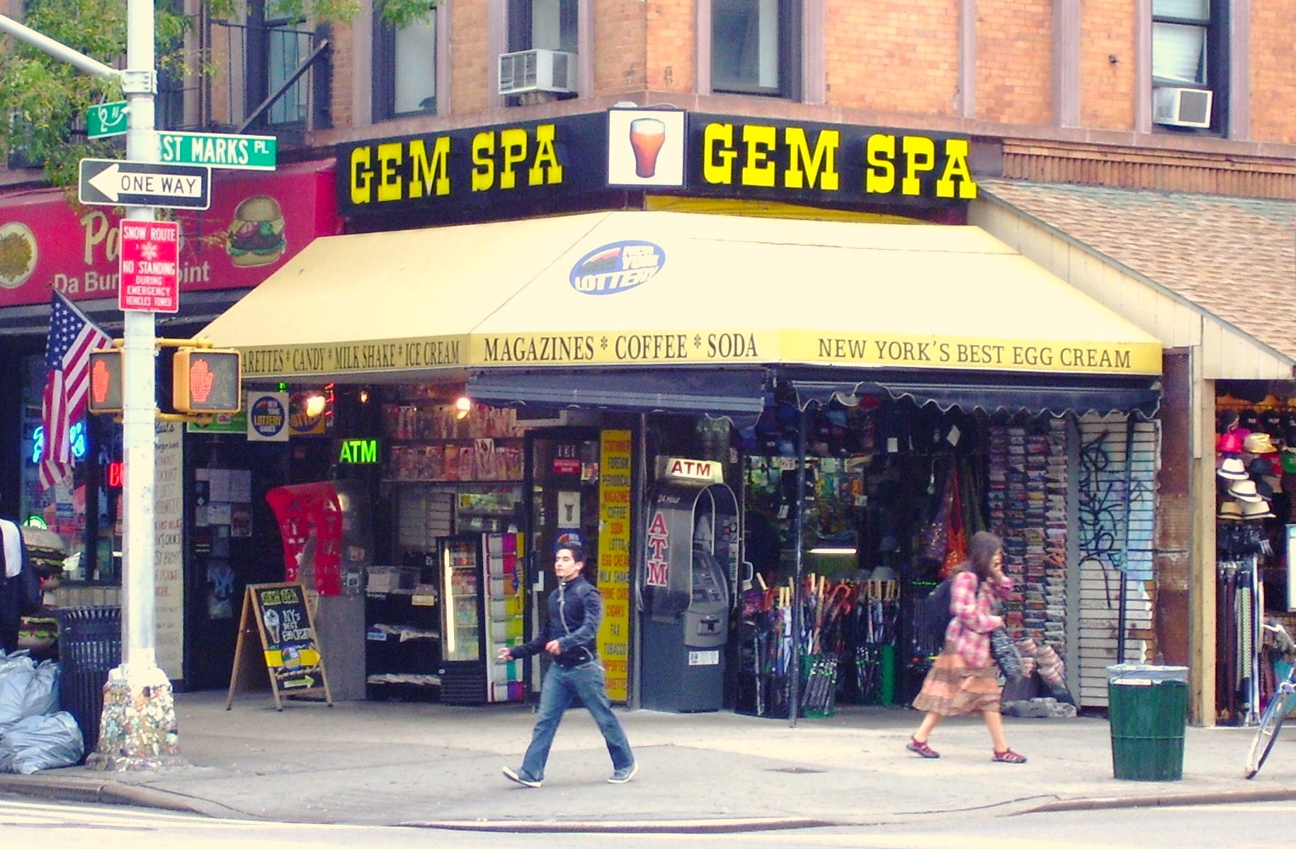 Gem Spa, in the East Village, Manhattan, New York City, is that mainstay of any self-respecting Manhattan neighborhood: the corner store.